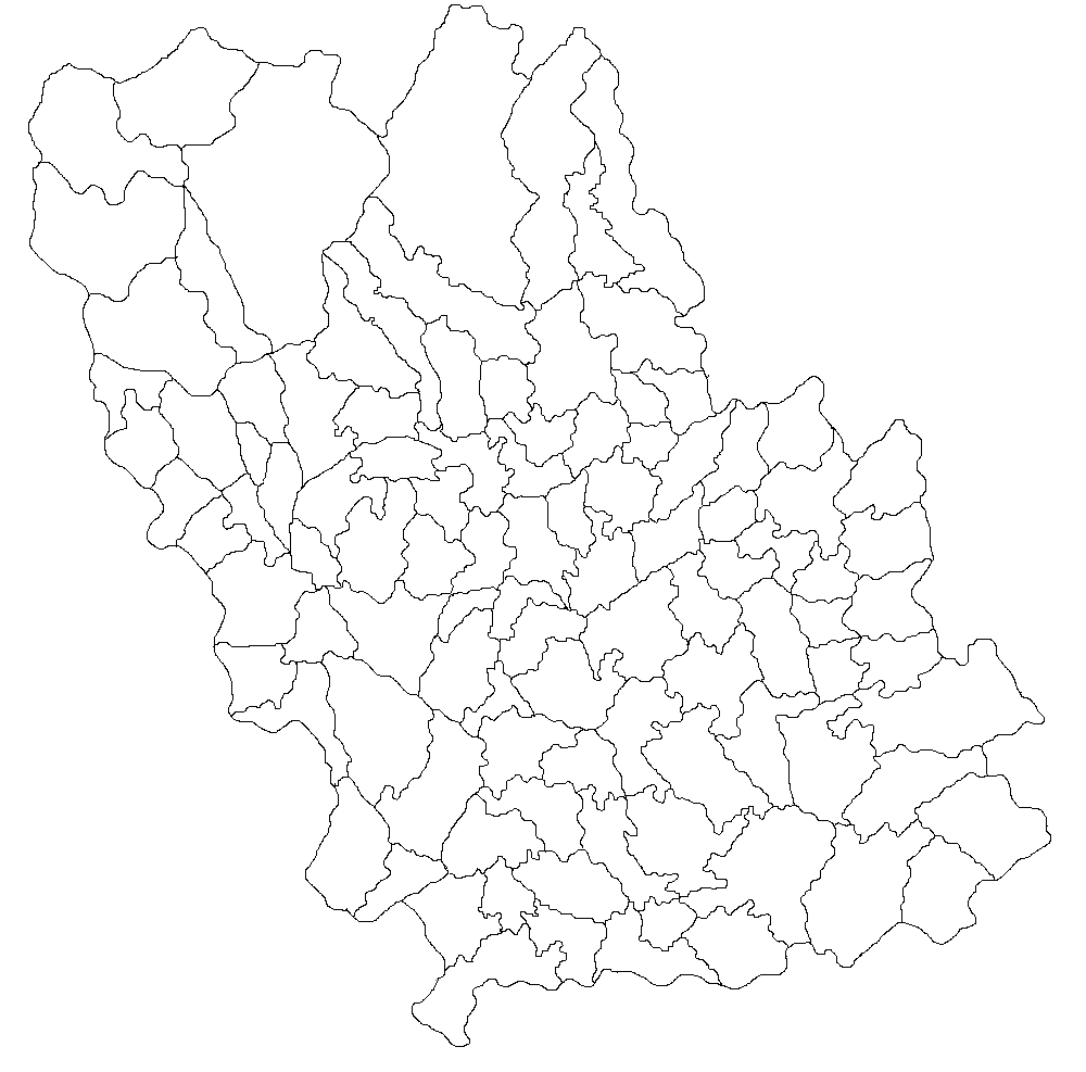 Map of Prahova county